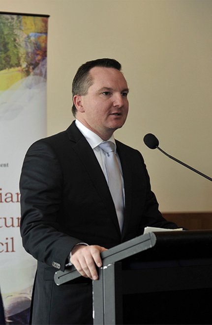 Chris Bowen speaking at the lanch of the Australian Multicultural Council (AMC) and a new local ambassadors program to champion inclusion and highlight the benefits of Australia’s diversity.